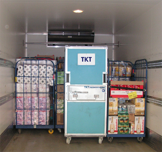 Insulated container